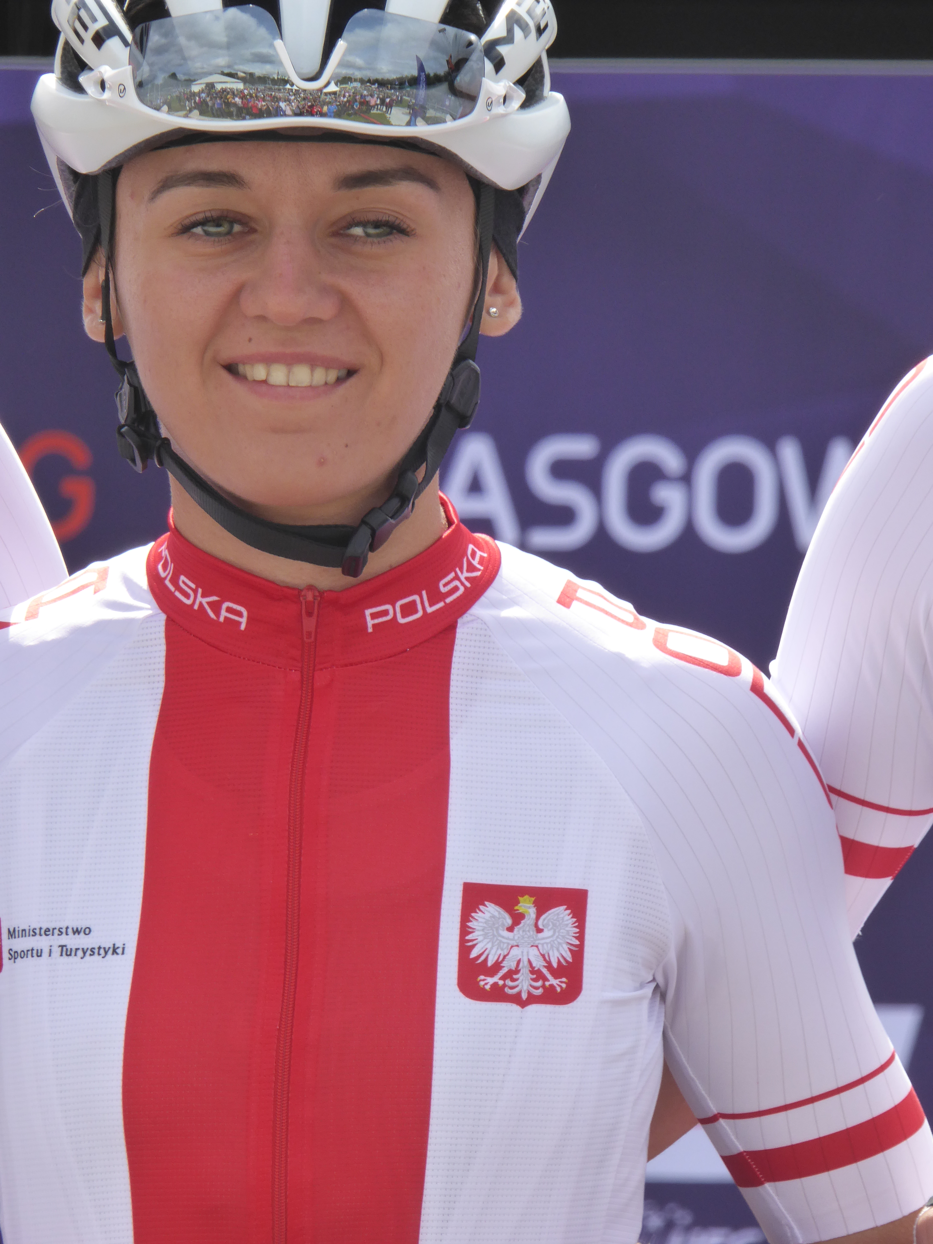 Katarzyna Wilkos (Poland), prior to the women's road race at the 2018 UEC European Road Cycling Championships in Glasgow.